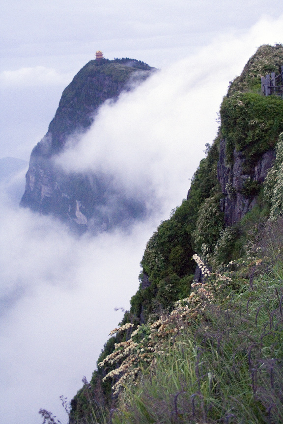 The Mount Emei